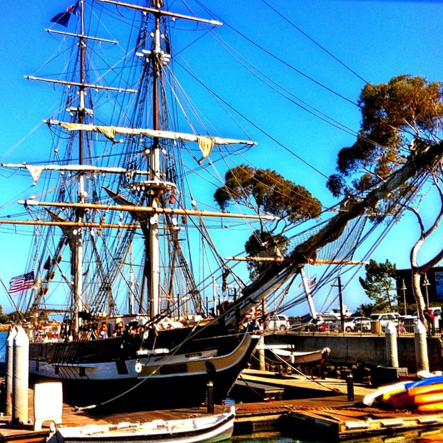 The ship Pilgrim at berth in the Dana point Harbor